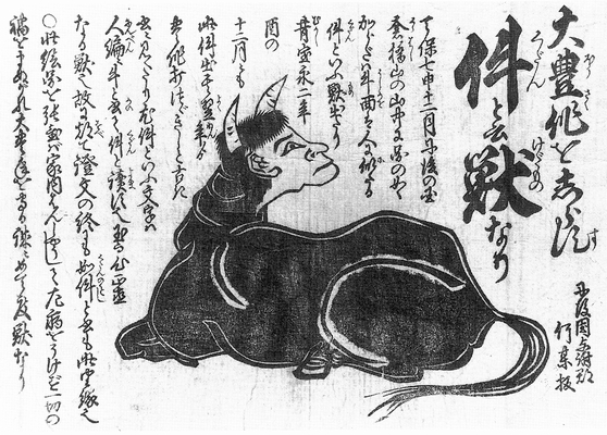 Kudan (件, a human-faced calf which predicts a calamity and then dies) that appeared in Mt. Kurahashi (倉橋山) in 1836 (天保7年).